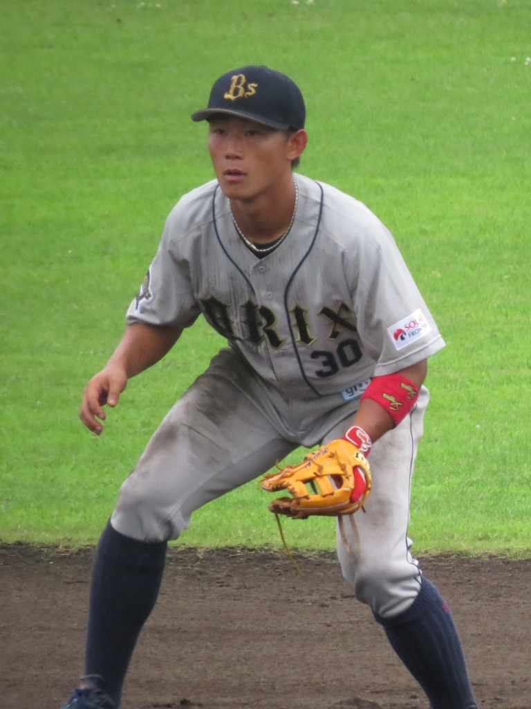 Taiki Mitsumata, infielder of the Orix Buffaloes, at Osaka Gas Imazu Ground